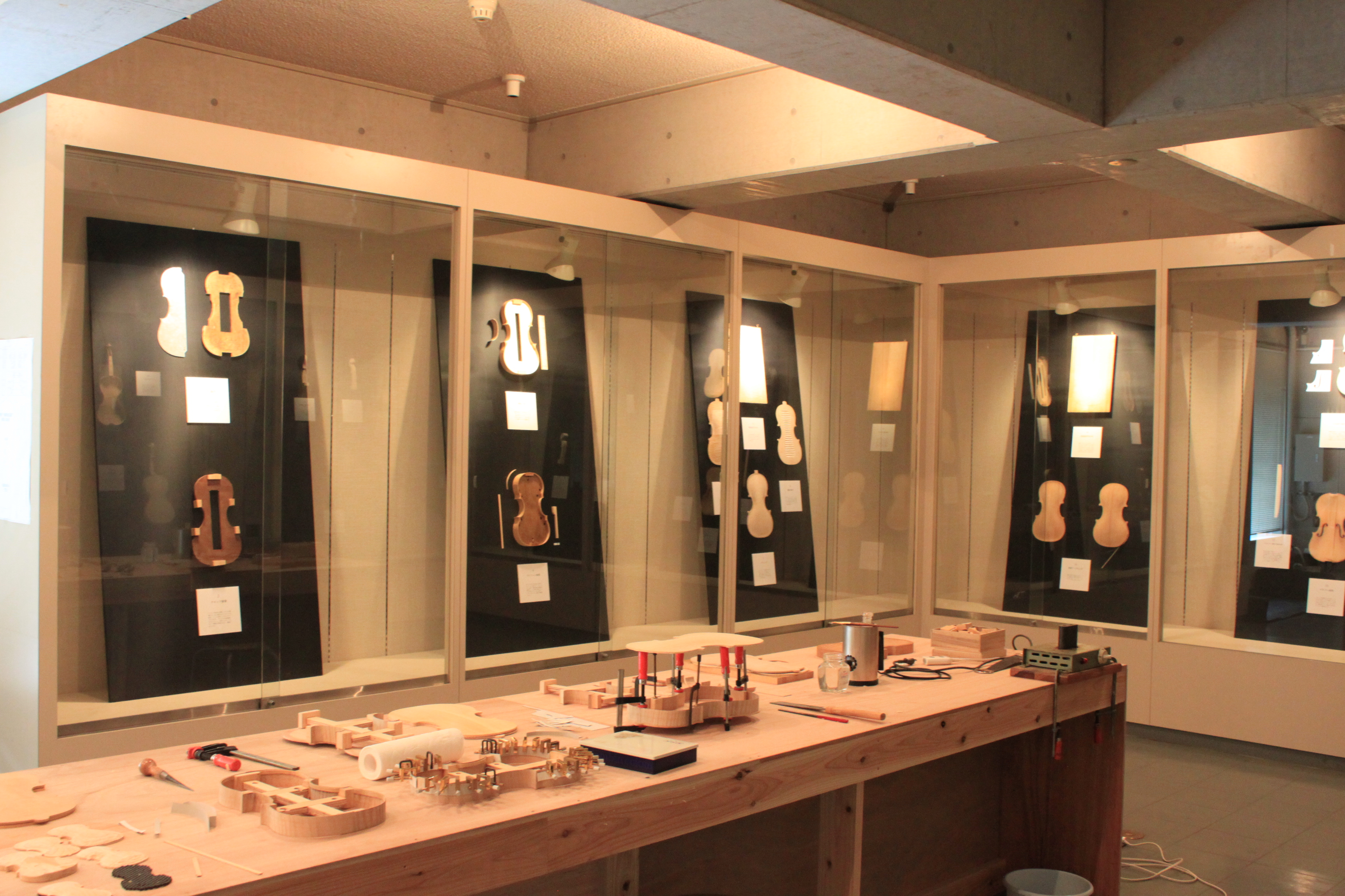 misasa museum,tottori japan